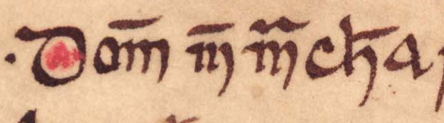 An excerpt from Bodleian Library MS Rawlinson B 489 (the Annals of Ulster), folio 43v. The excerpt concerns Domnall mac Murchada, King of Dublin (died 1075).